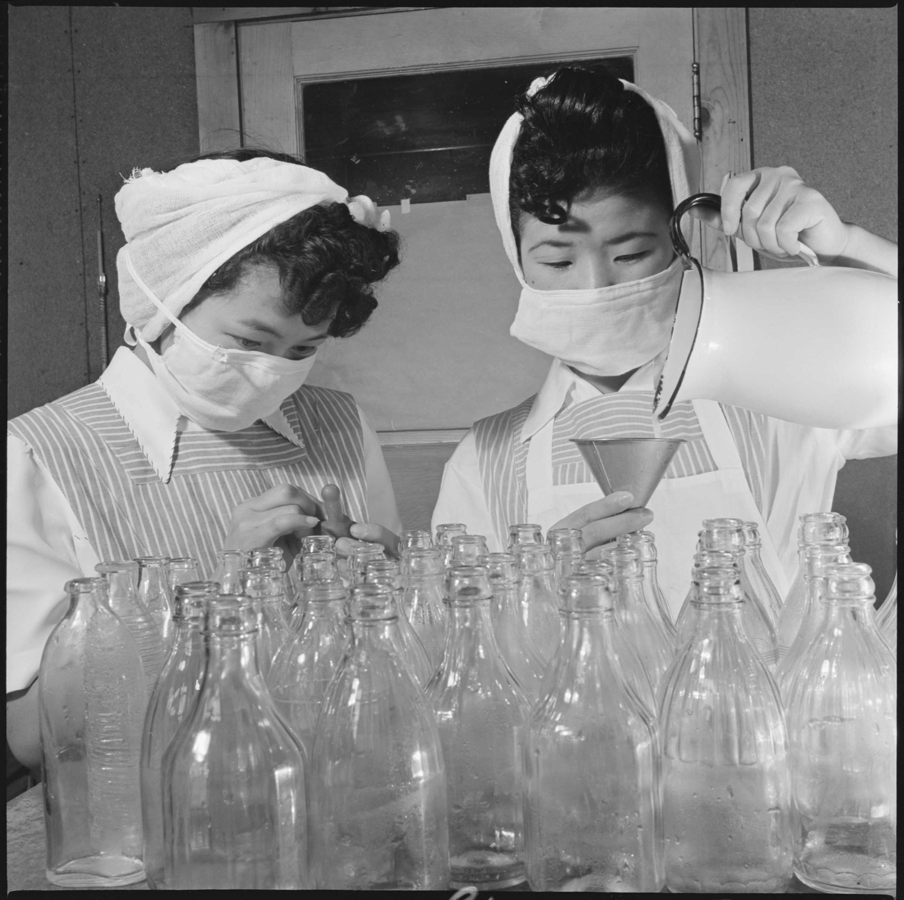 Scope and content: The full caption for this photograph reads: Heart Mountain Relocation Center, Heart Mountain, Wyoming. Ruth Uchida, left and Haruko Nagahiro, milk kitchen girls at the Heart Mountian Hospital, prepare formula diet for the center babies. The bottles shown have just been sterilized and great care is taken to insure sterility.